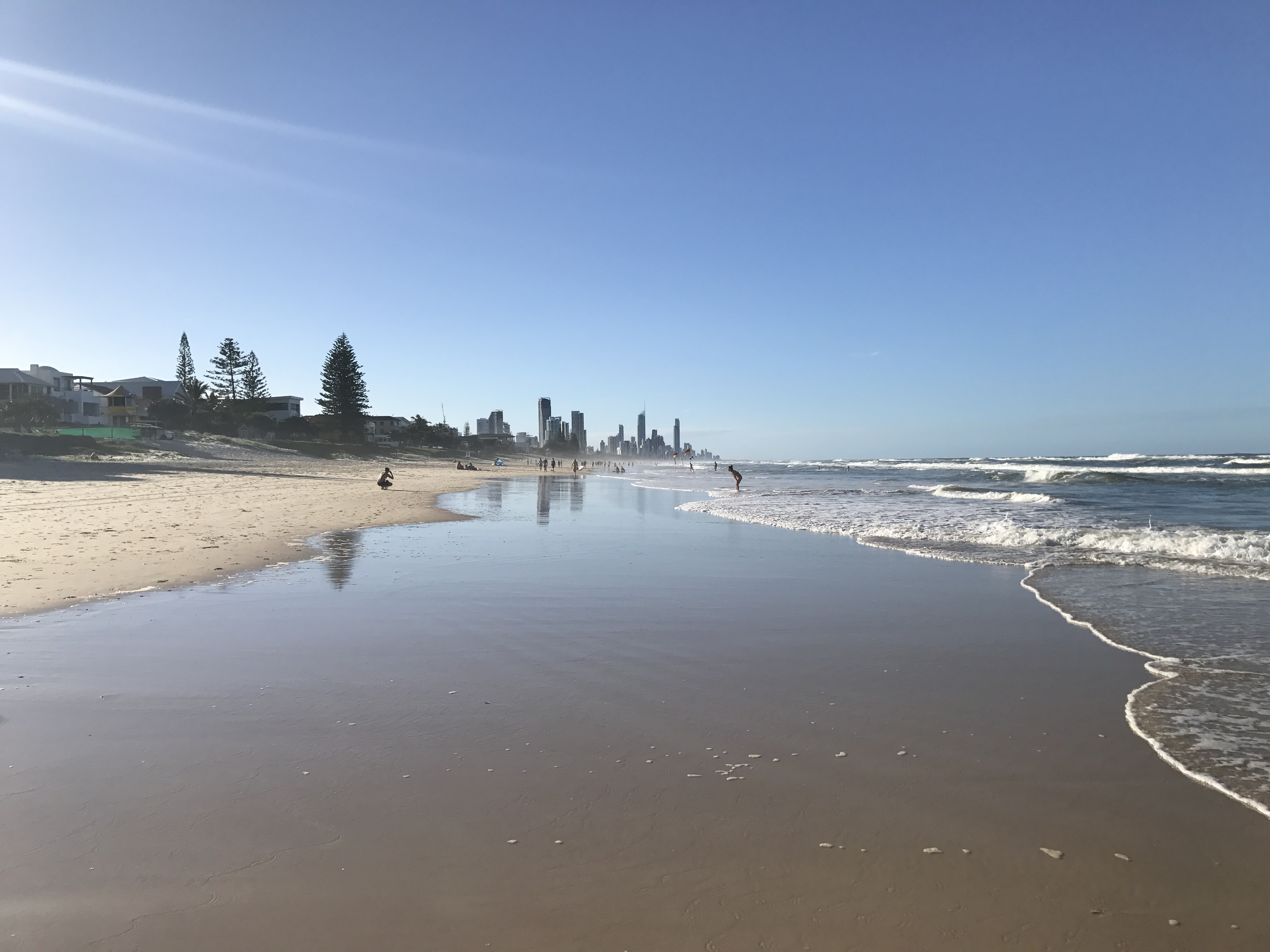 Mermaid Beach, opposite Nobby's Beach Surf Life Saving Club, Queensland, looking North